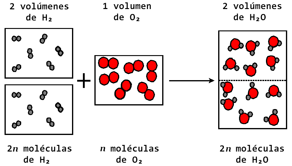 Water (H2O) synthesis from dioxygen and dihydrogen